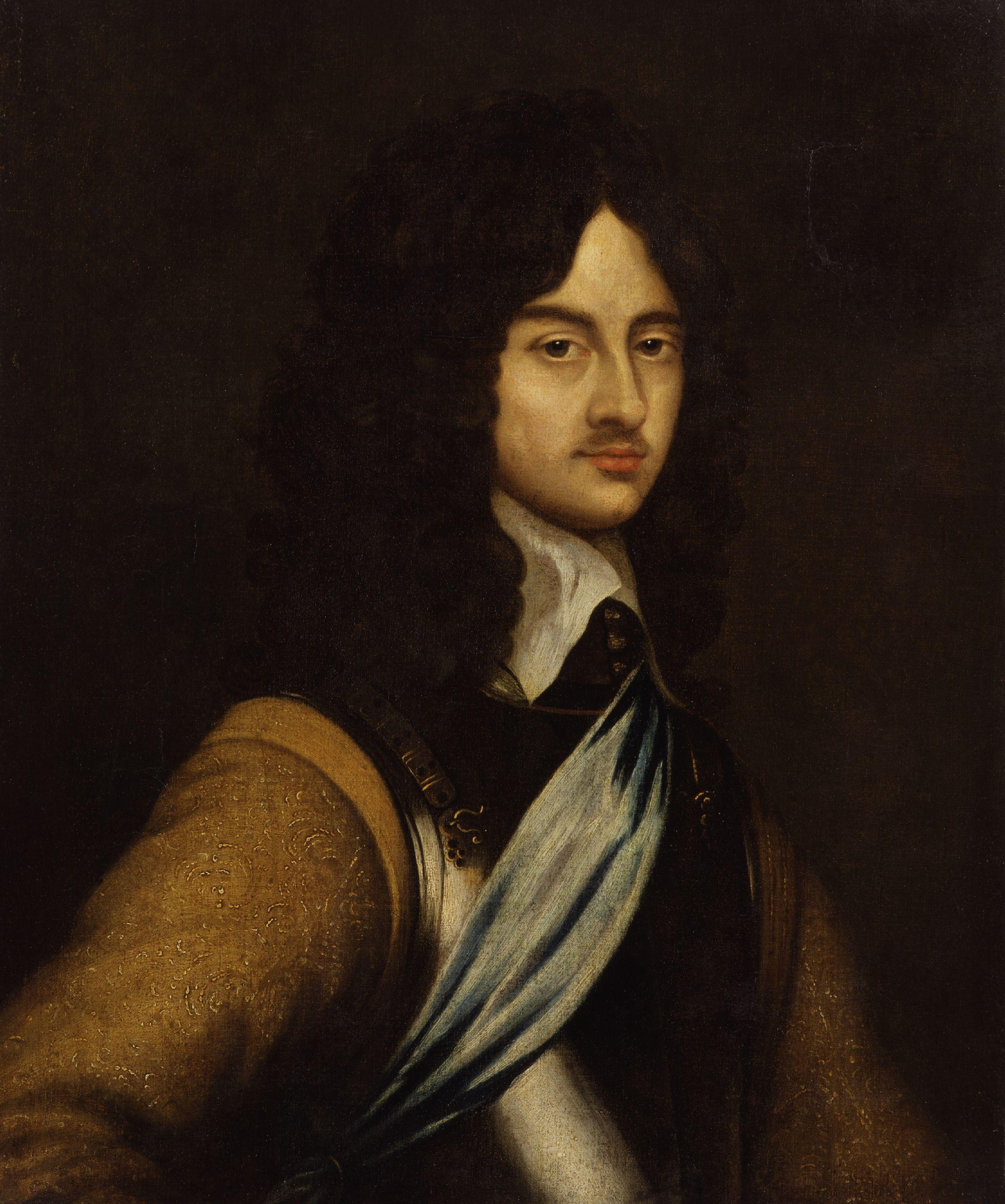 King Charles II, by Adriaen Hanneman (died 1671). All images in this batch have been confirmed as author died before 1939 according to the official death date listed by the NPG.